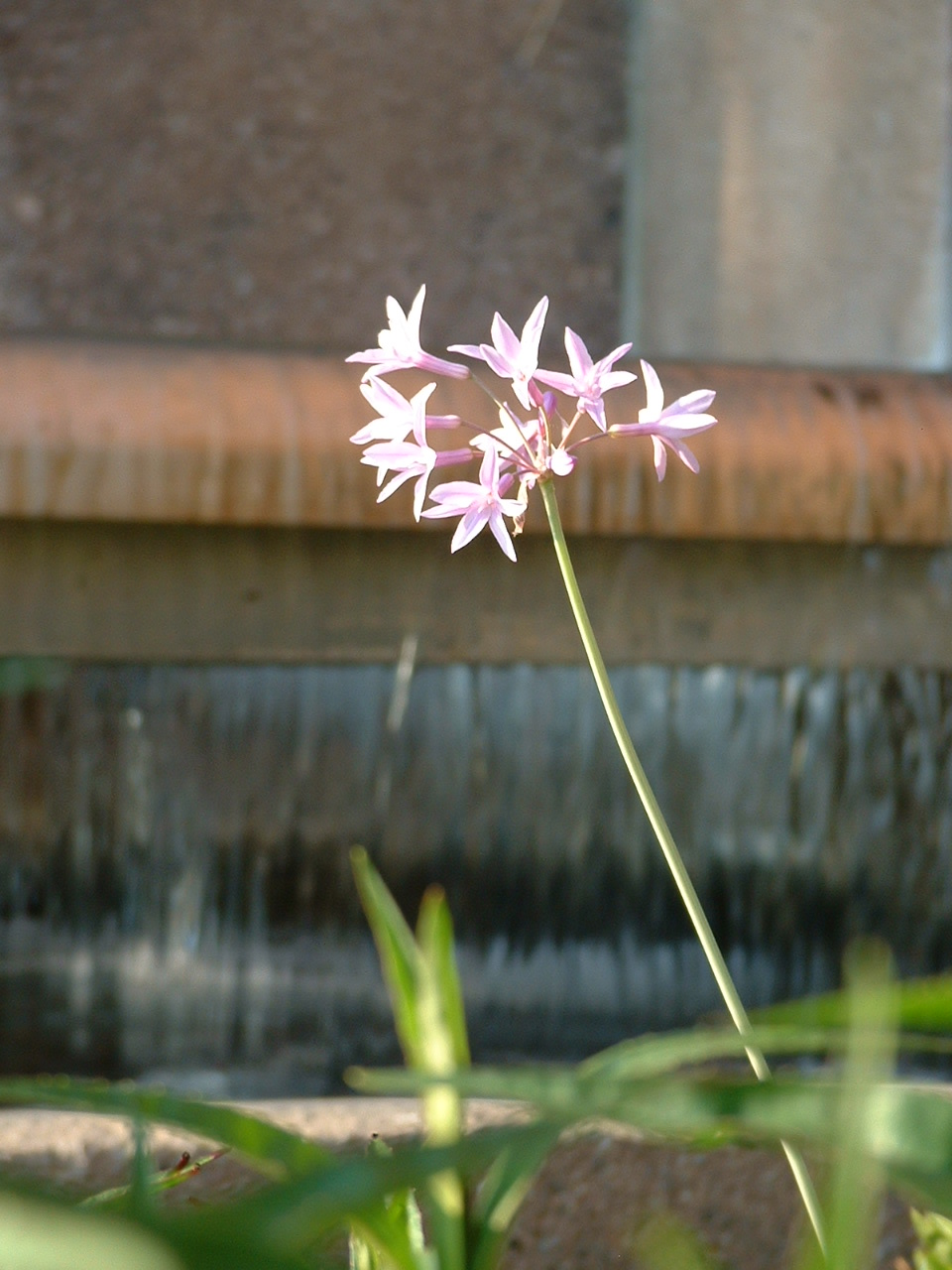 Flowers by fountain in professionally landscaped corporate setting in suburban Sacramento, California